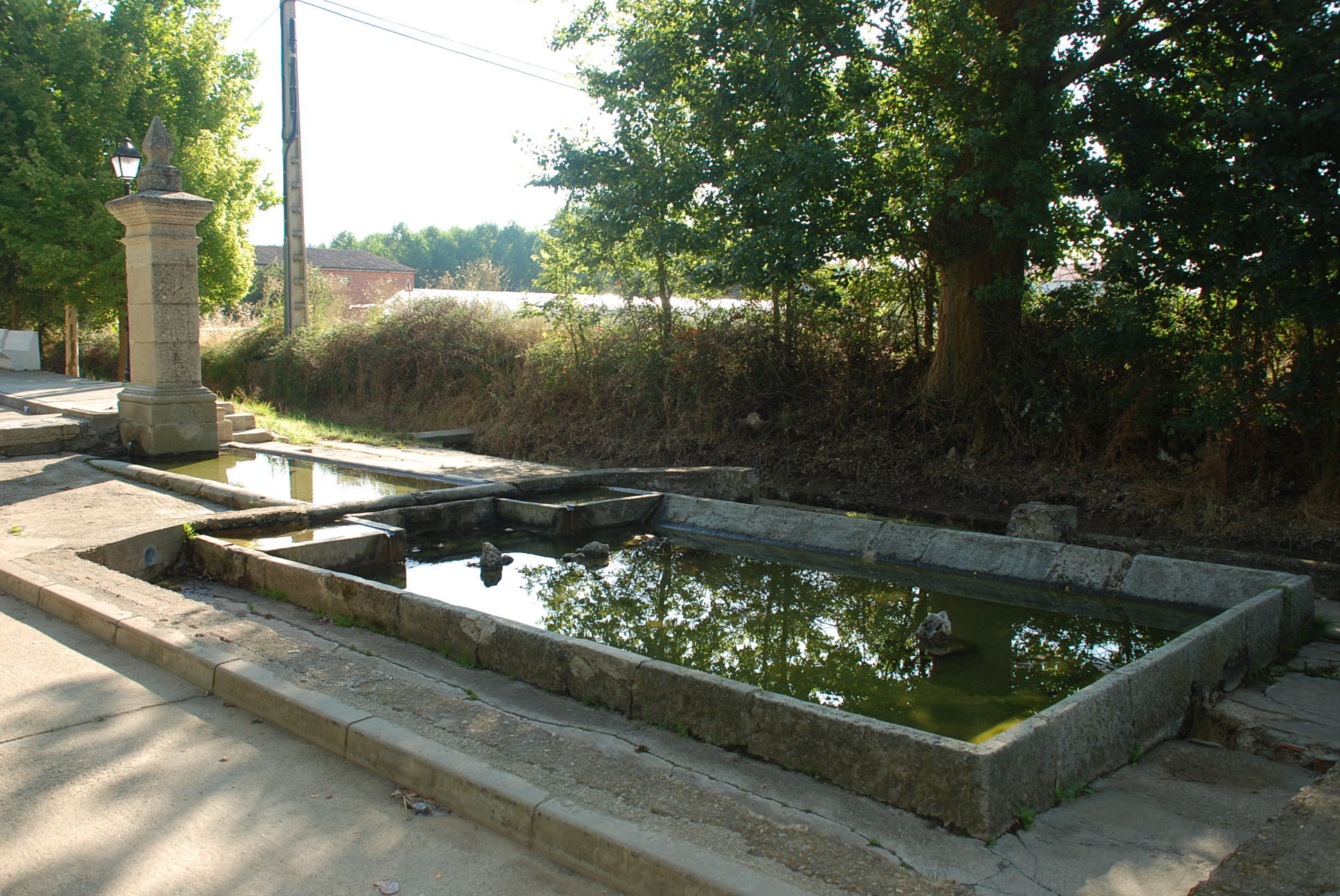 Fountain known as "El pilón" of Villanuño de Valdavia (Palencia, Castile and León).